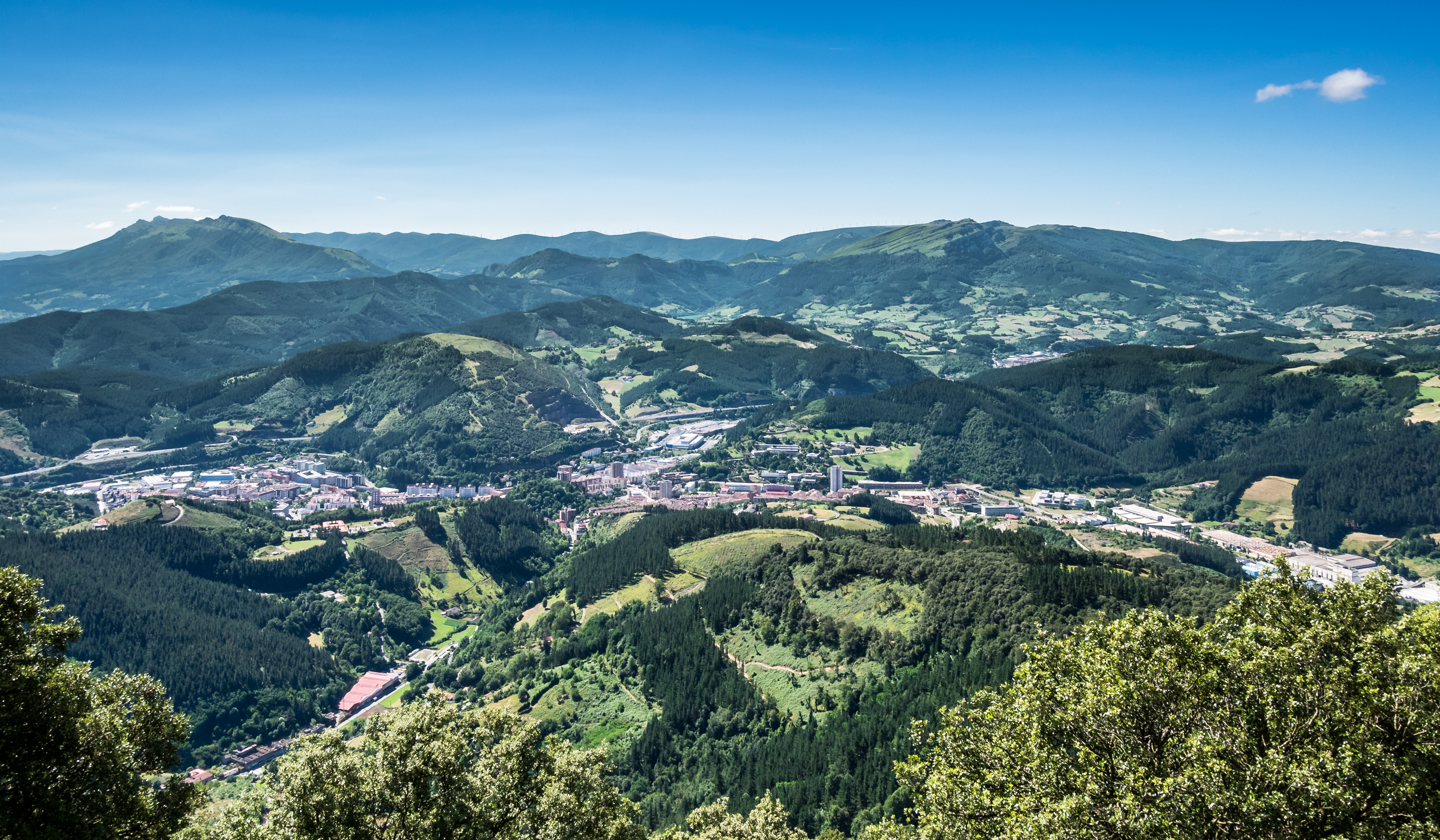 Mondragón, seen while climbing the Udalaitz. Basque Country, Spain